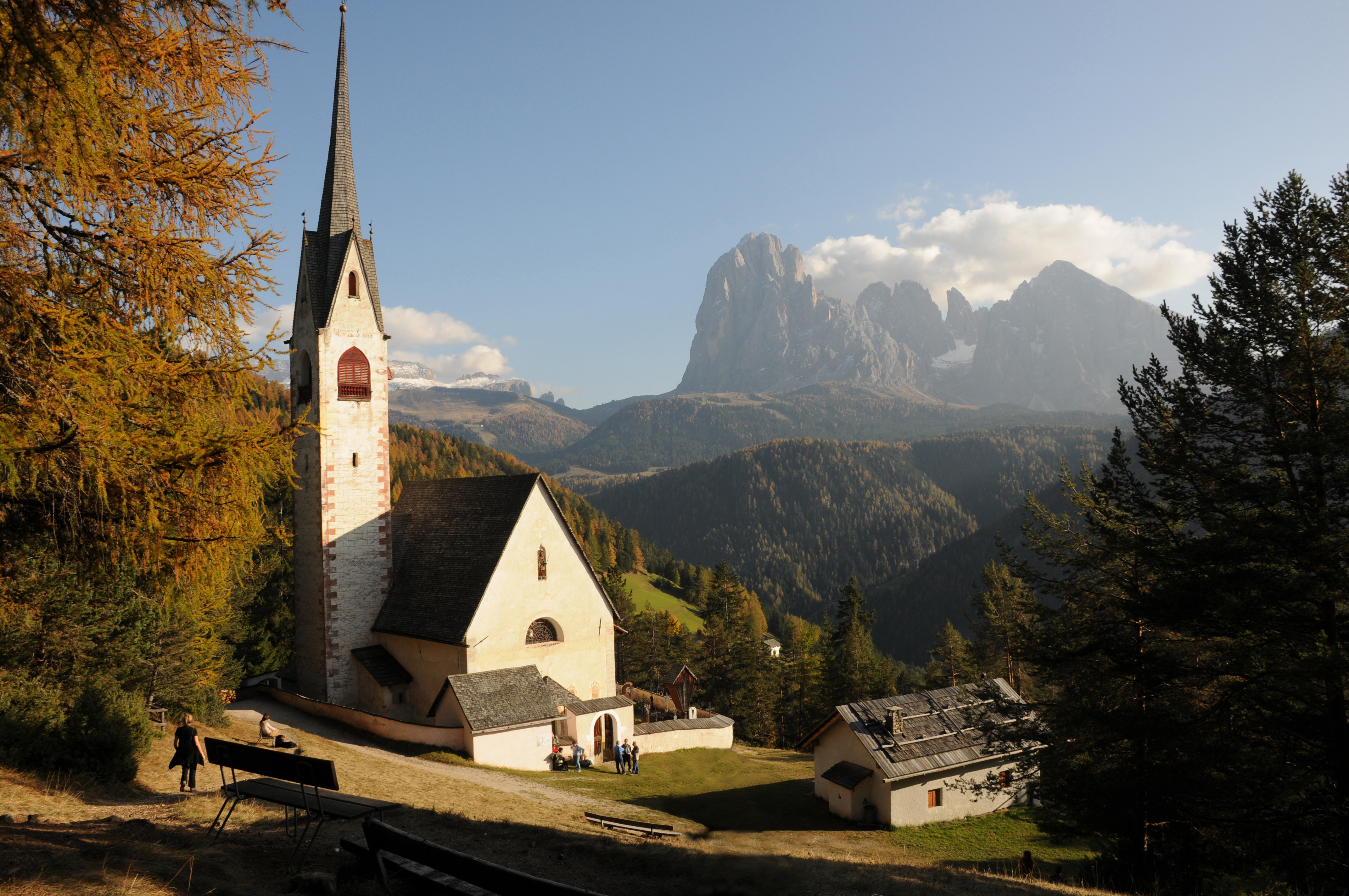 The antique St. Jacob church inUrtijëi,in Val Gardena with the Sassolungo (Langkofel) and left to Sassolungo the summits of the Sella towers.